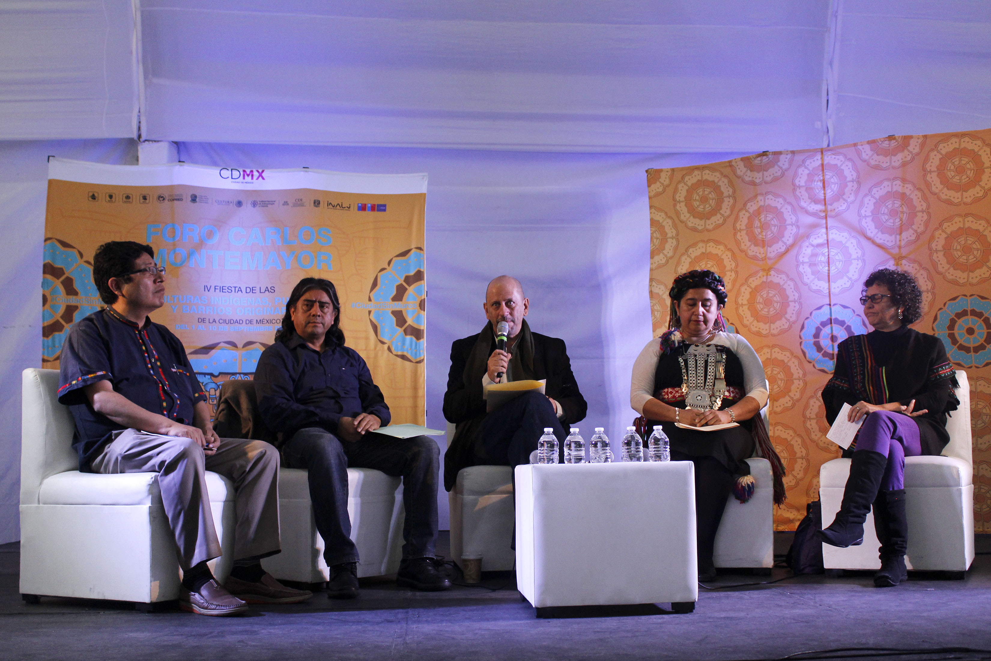 Sábado 9 de septiembre de 2017 En el Foro Carlos Montemayor, de la IV Fiesta de las Culturas Indígenas, Pueblos y Barrios Originarios de la Ciudad de México, se realizó la Charla Propiedad Intelectual, Piratería y biopiratería, formas contemporáneas de usurpación del conocimiento indígena, impartida por María Teresa Huentequeo Toledo, Aucán Huilcamán Paillama y moderada por el secretario de Cultura de la Ciudad de México, Eduardo Vázquez Martín. Fotografía: Maritza Ríos / Secretaría de Cultura CDMX